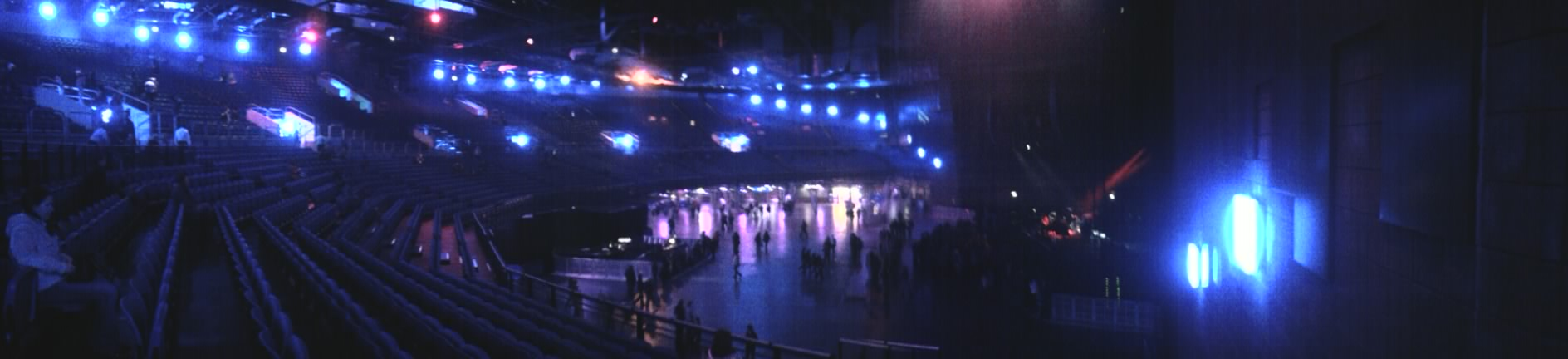 Inside the O2 arena Dublin